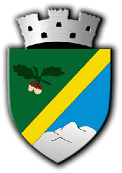 Coat of Arms of Huedin City, Romania